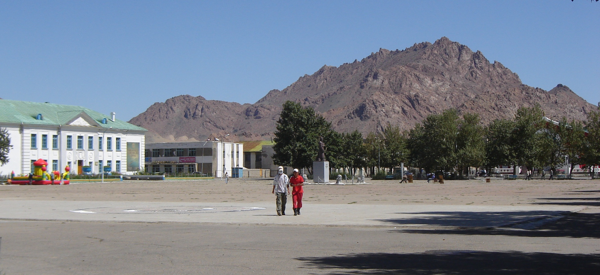 Main Square in Khovd, capital of Khovd Aimag